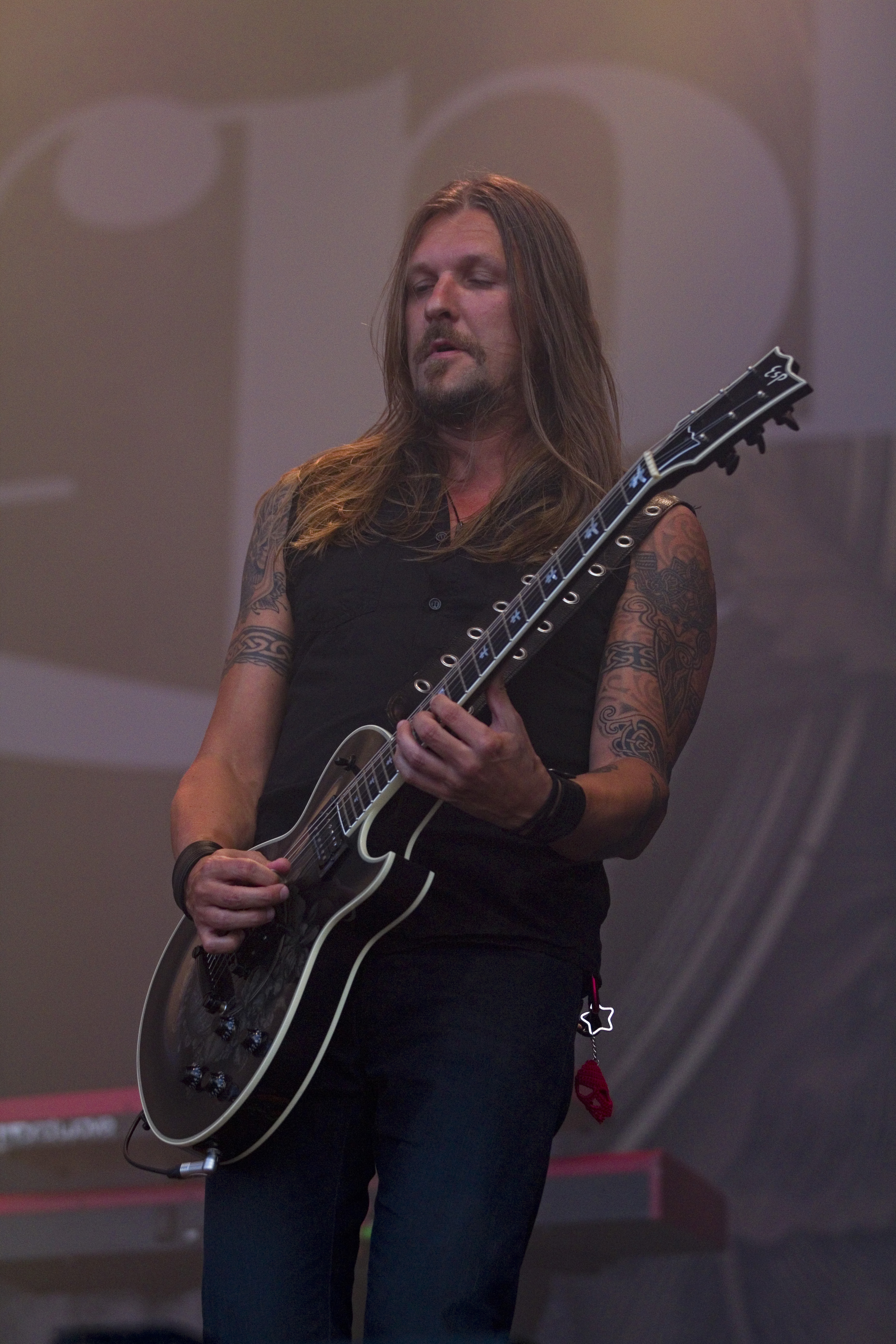 The Finish metal band Amorphis at the Rockharz Open Air 2014 in Ballenstedt/Germany